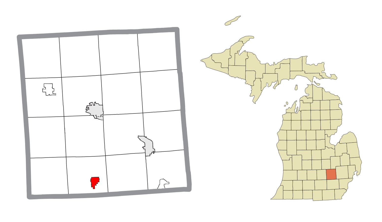 Pinckney, MI